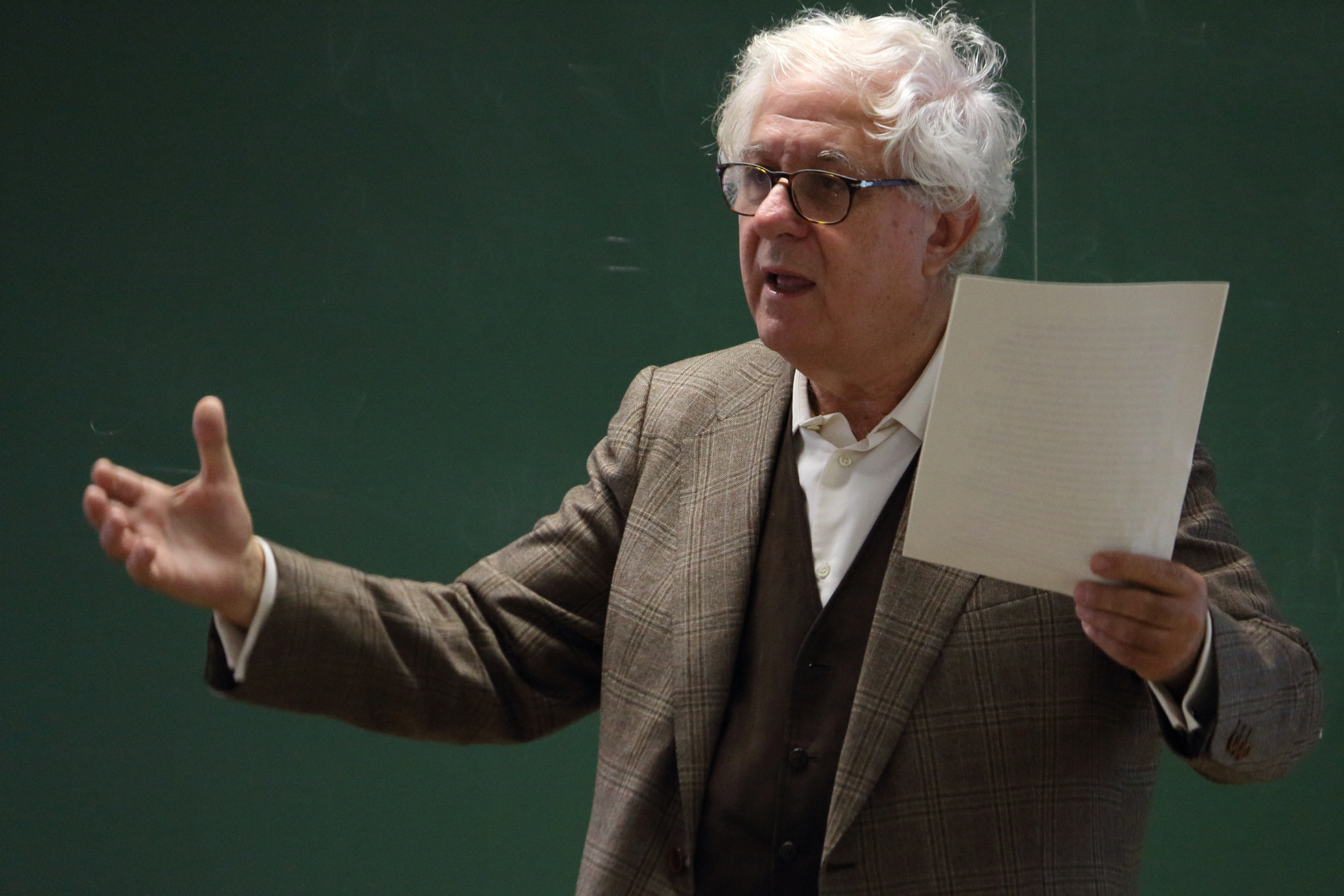 El catedrático de Fundamentos del Análisis Económico de la Universidad Carlos III de Madrid y director del Instituto Flores de Lemus, ha impartido hoy en la Universidad Pablo de Olavide la conferencia “La predicción económica. Relevancia. Incertidumbre. Fortalecimiento frente a cambios estructurales”.